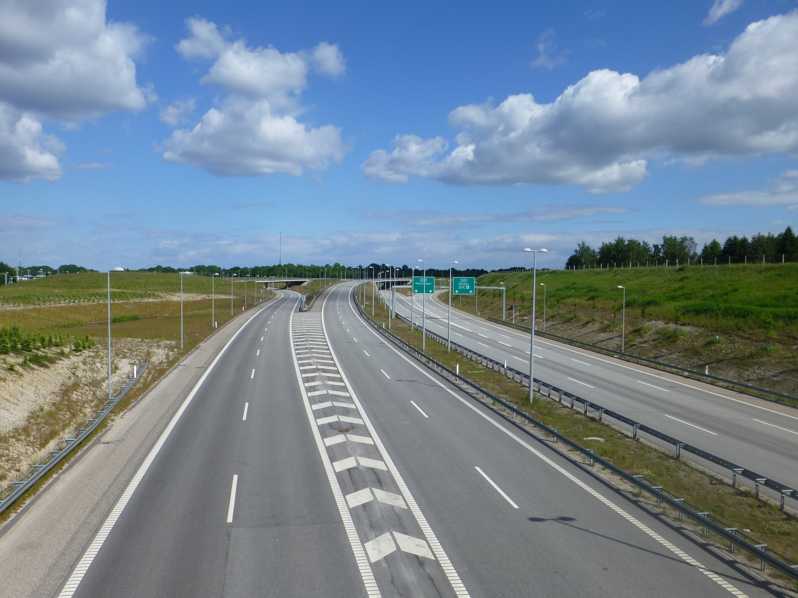 The Danish highway Frederikssundsmotorvejen seen from the bridge for Oxbjergvej against east to the interchange with Motorring 3.